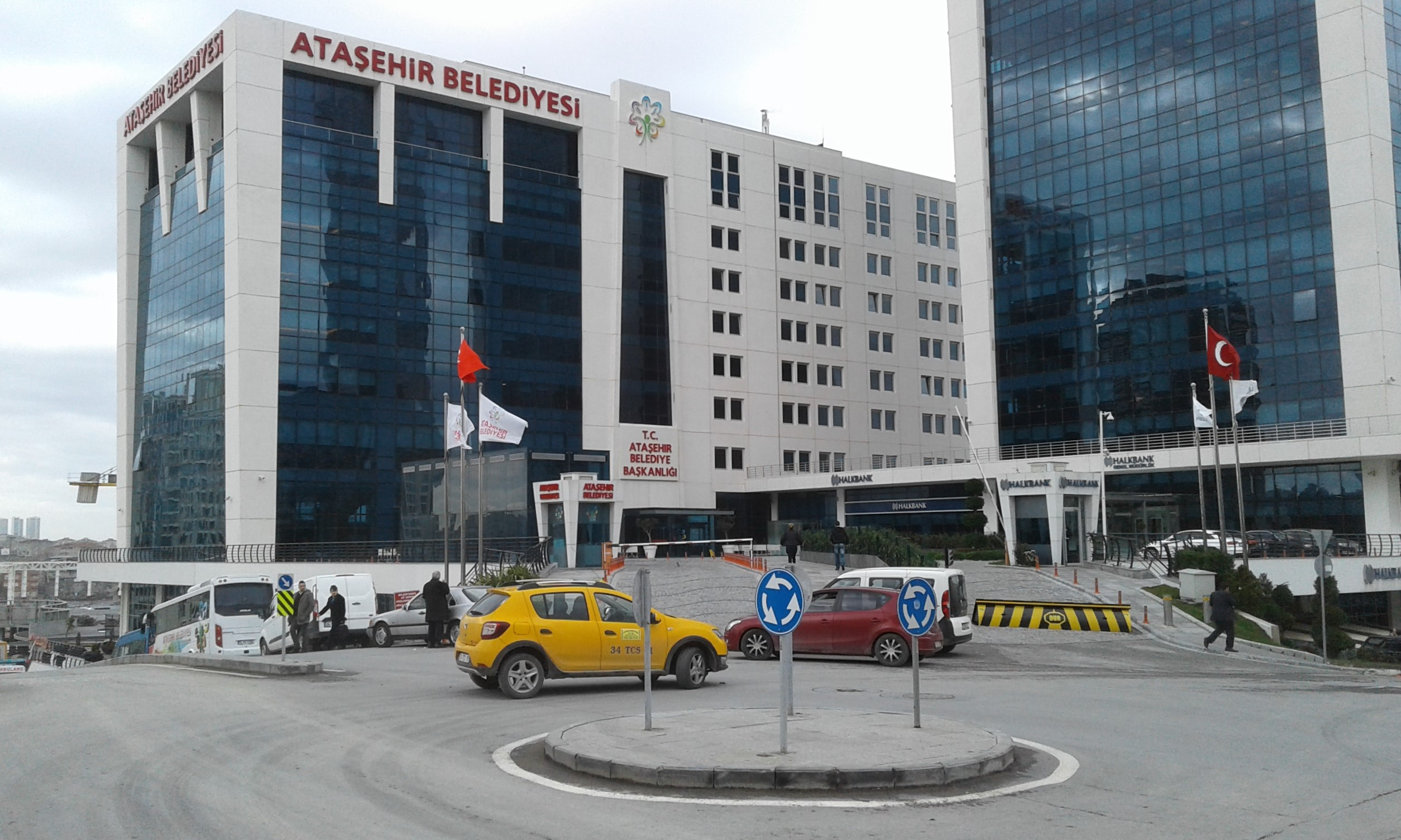 Municipality building of Ataşehir District in Istanbul, Turkey